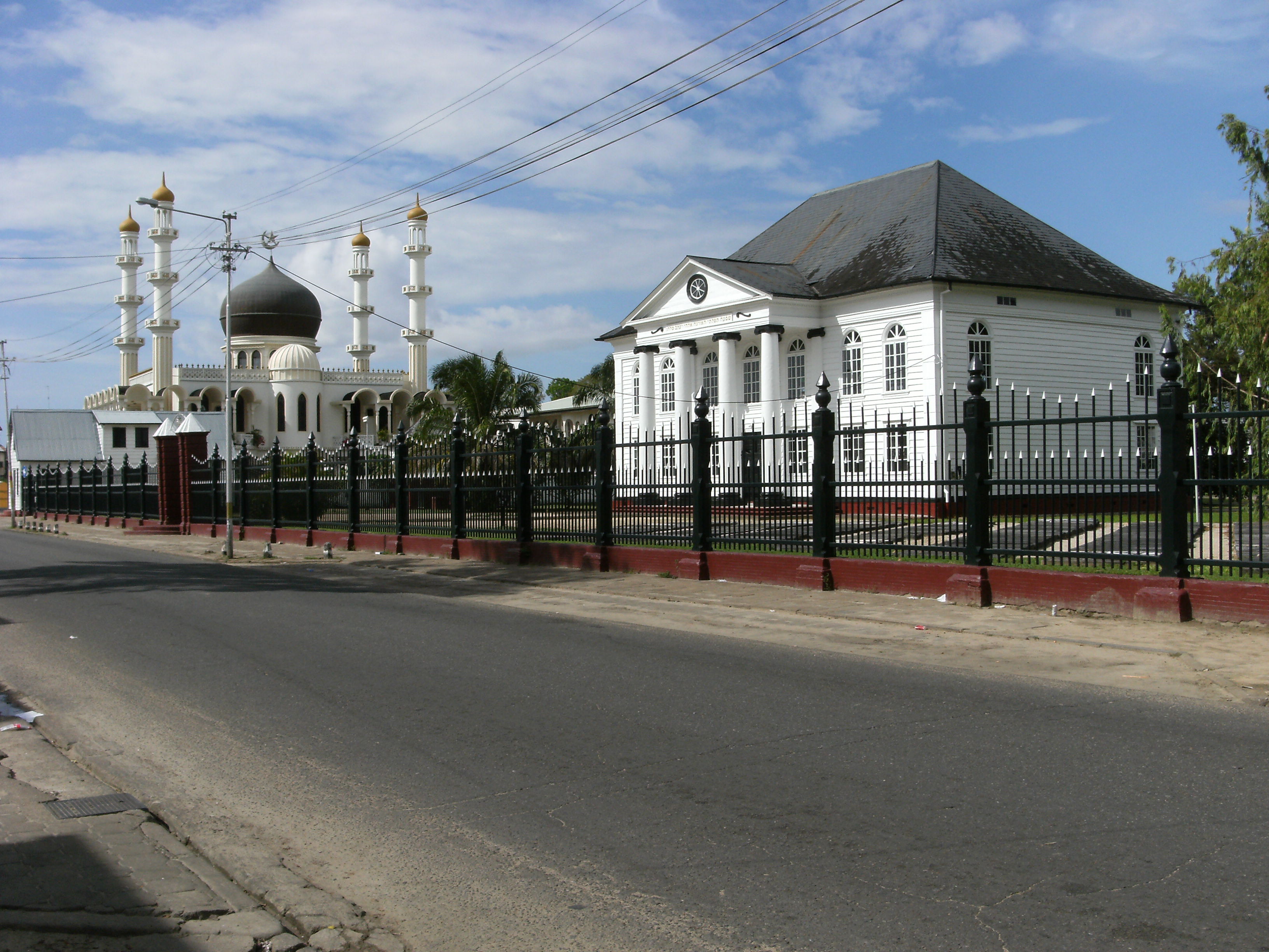 Mosque and Synagogue in Paramaribo, Suriname